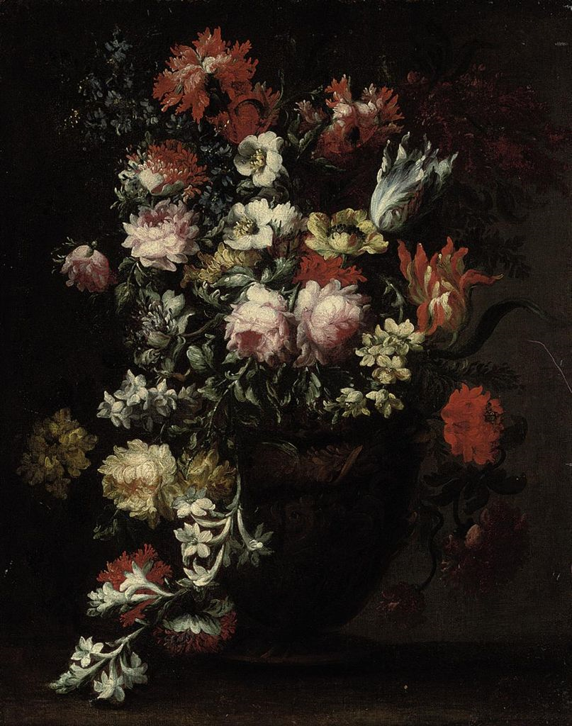 Chrysanthemums, roses, parrot tulips, anemonies and other blooms in an urn.